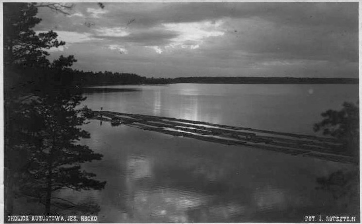 Lake Necko in Poland.